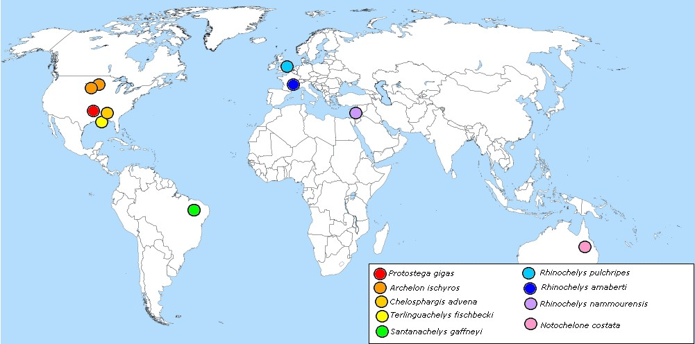 Map location of discovery sites of the fossils from Protostegids family